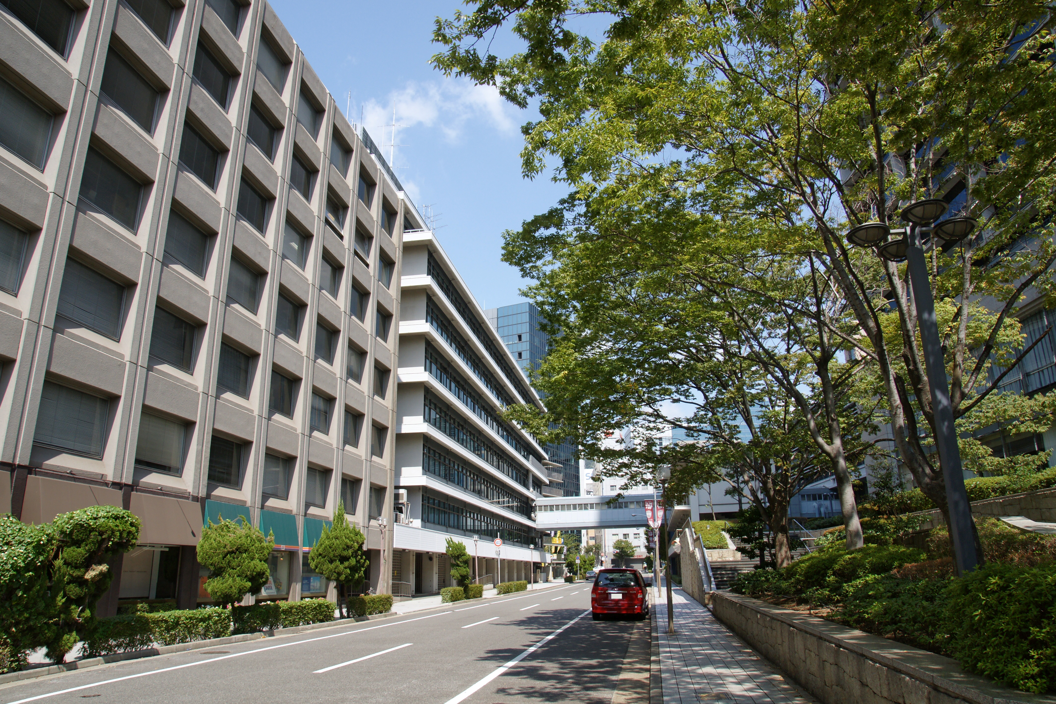 Kobe City Hall, Kobe, Hyogo prefecture, Japan